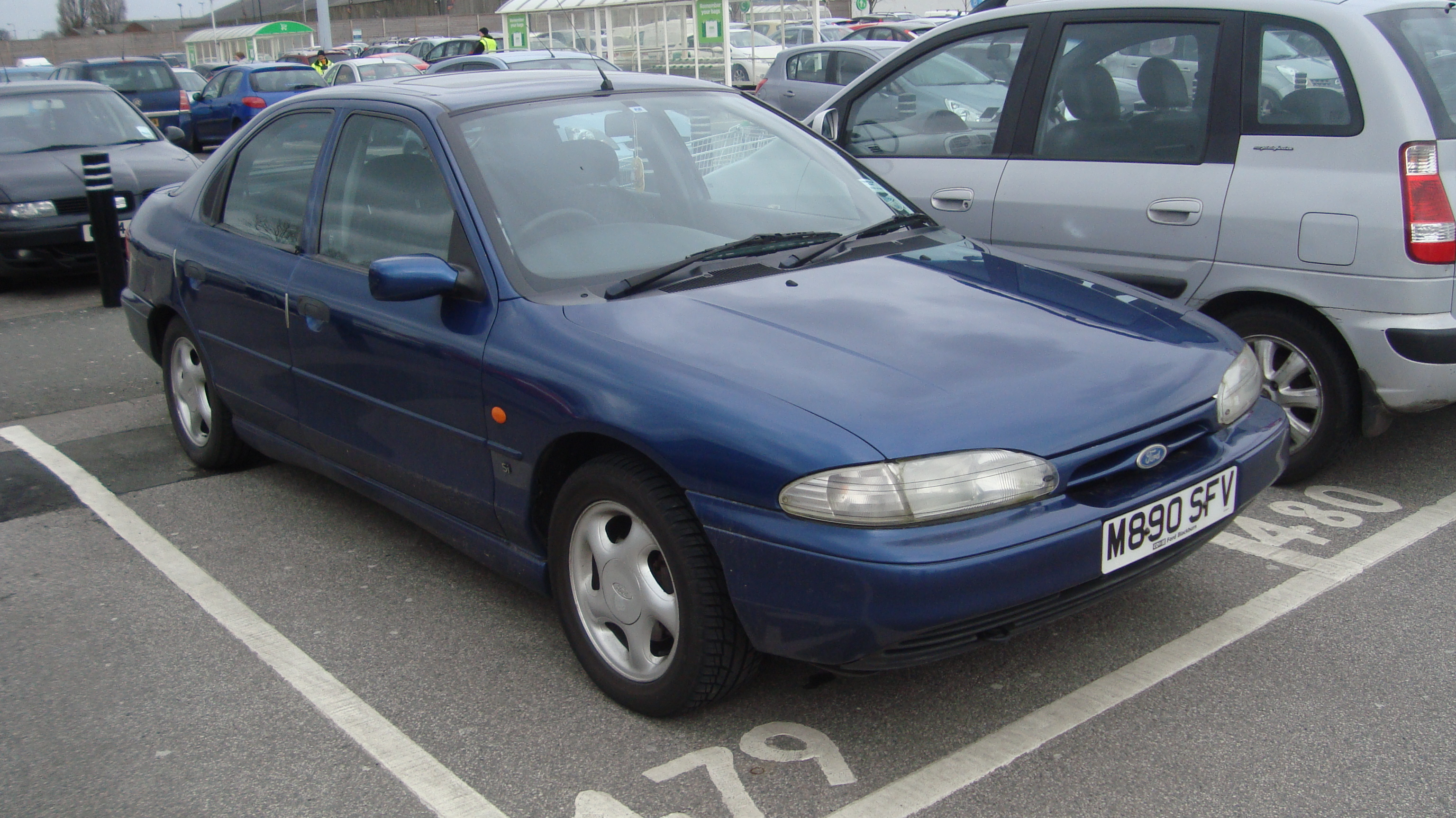 One of the tidiest Mk1's I've come across and one that's been re taxed and passed its MOT since I saw it last.